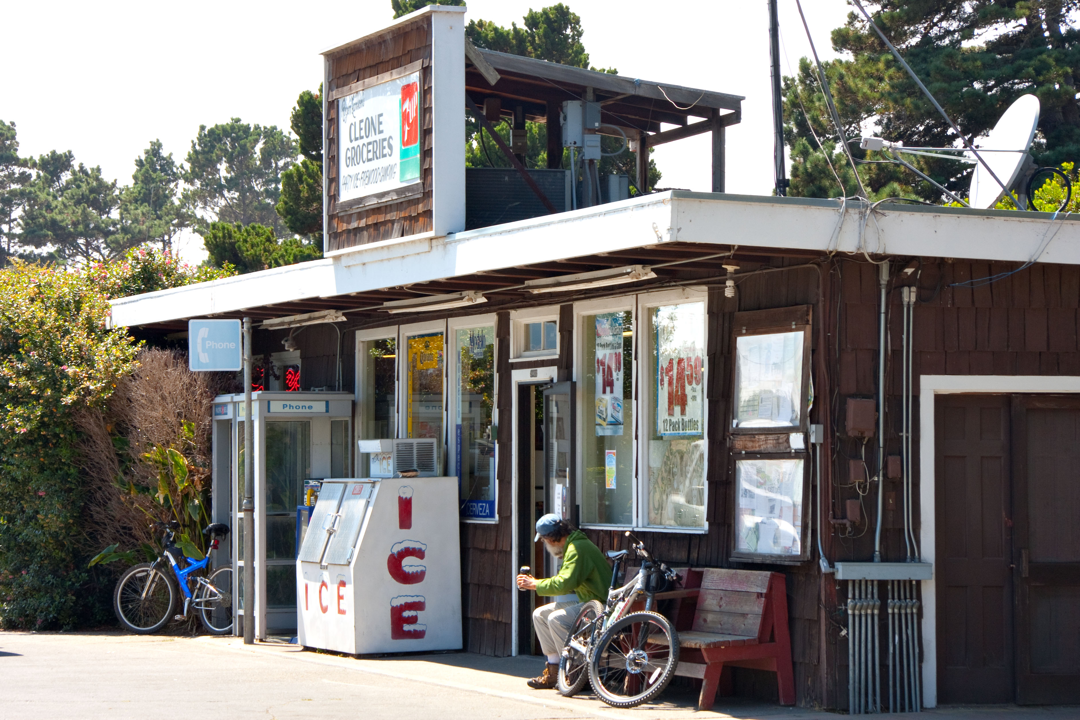 Grocery store on California State Route 1 in Cleone, Mendocino County, California.